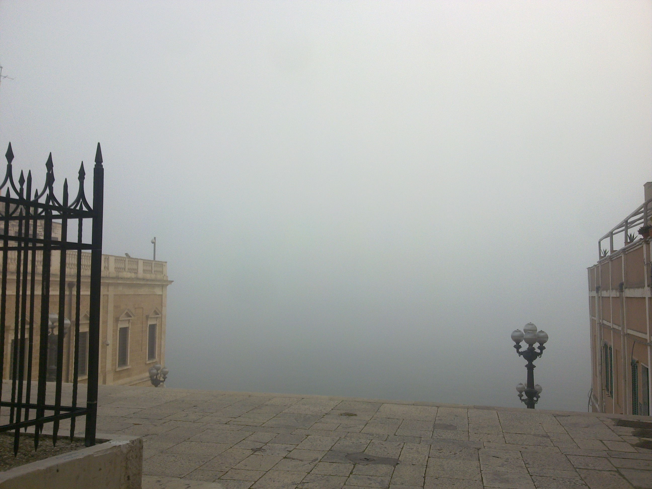 Harbor of Brindisi dipped in fog, viewed from the end of "Via Appia".